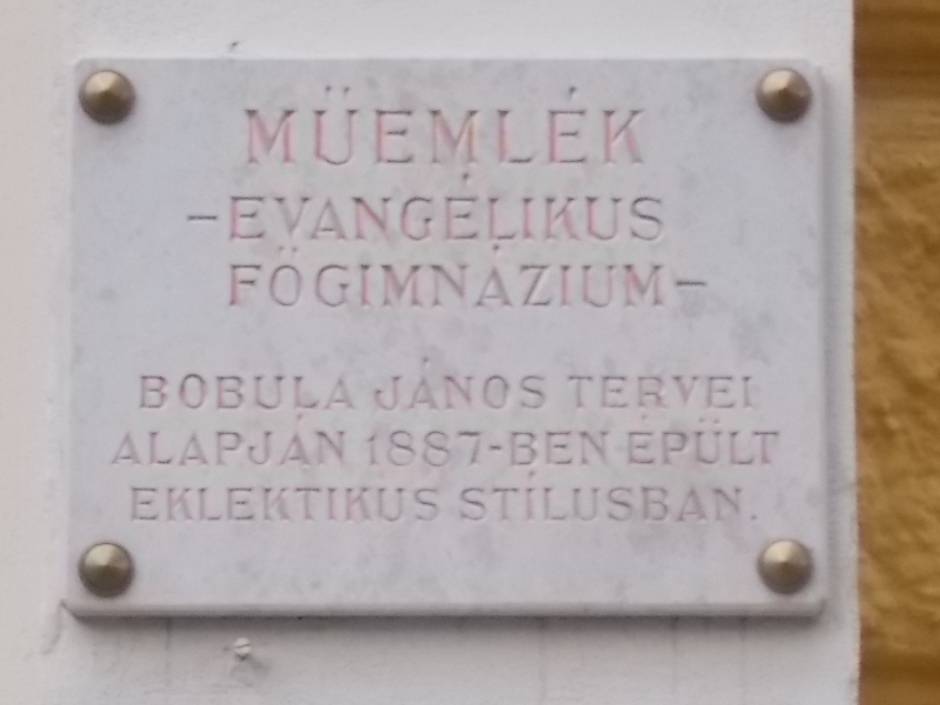 Monumant sign, Lutheran high school or Kossuth Lajos high school. It was built in eclectic style in 1887 by plans of Bobula János and extended in around 1890. Its facade decoretd with plaques of former students. - 17-19 Szent István Street, Nyíregyháza, Szabolcs-Szatmár-Bereg County, Hungary.